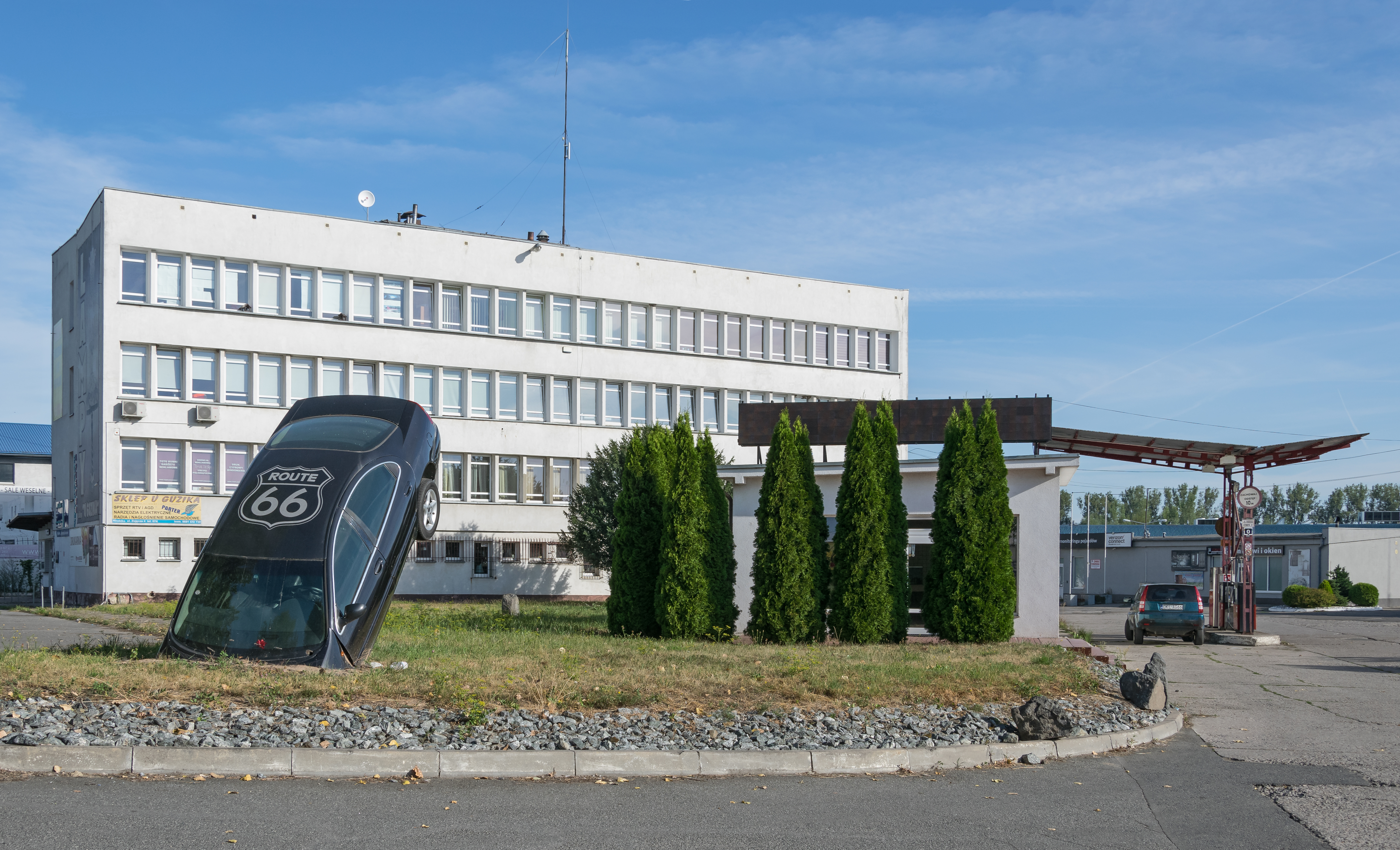 Advertisement of petrol station in Kłodzko